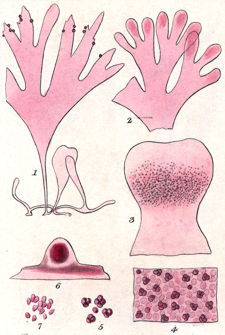 Rhodymenia pseudopalmata (als Rhodomenia palmetta) from: Florideae, Tab XII, engraved by William Miller after R K Greville from "Algae Britannicae, or Descriptions of the Marine and other Inarticulated Plants of the British Isles belonging to the order Algae; with Plates illustrative of the Genera by Robert Kaye Greville" (Edinburgh: Machlachlen and Stewart, Edinburgh; and Baldwin and Cradock, London 1830)